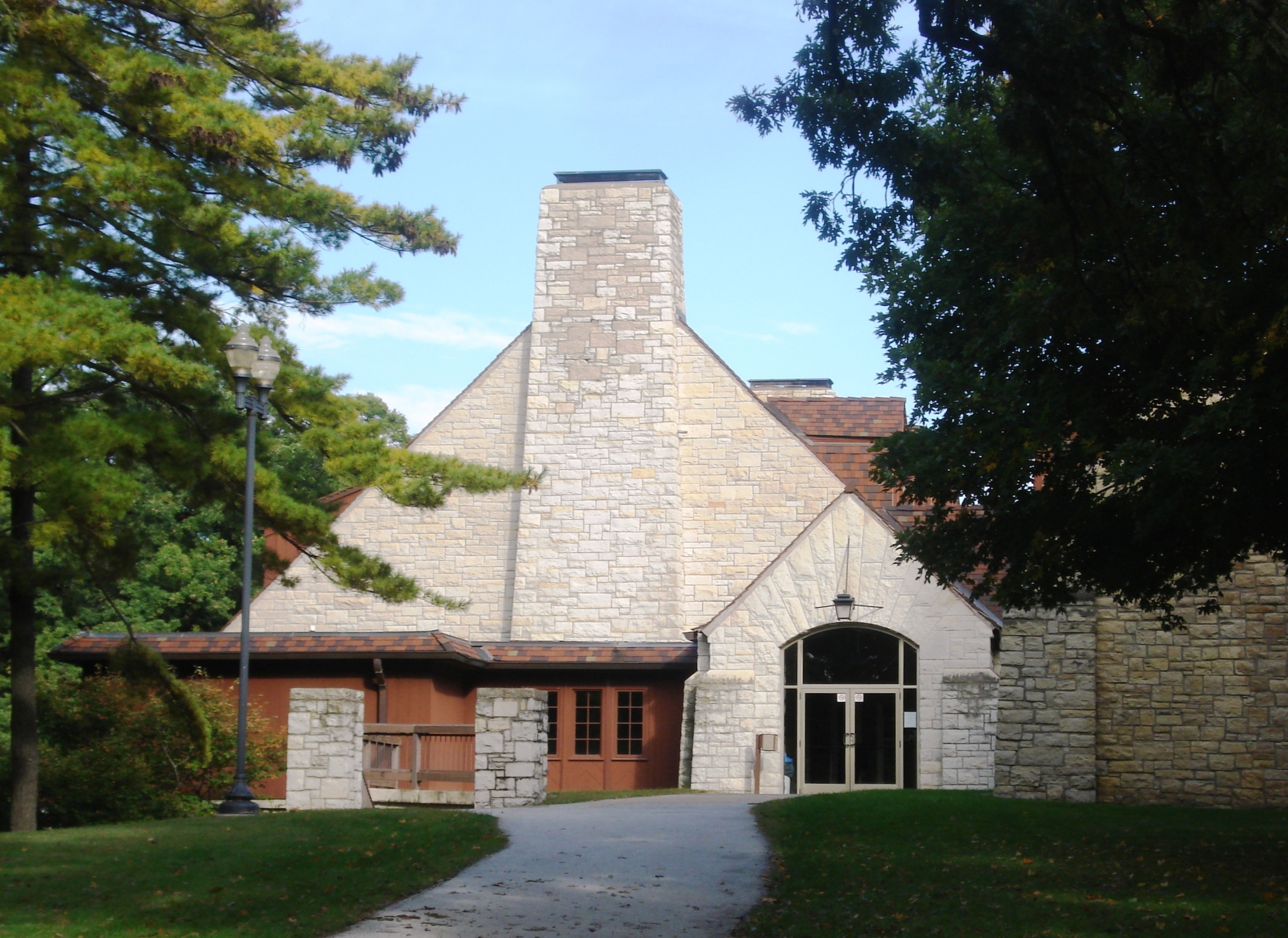 Built in the 1930's by the Civilian Conservation Corps.